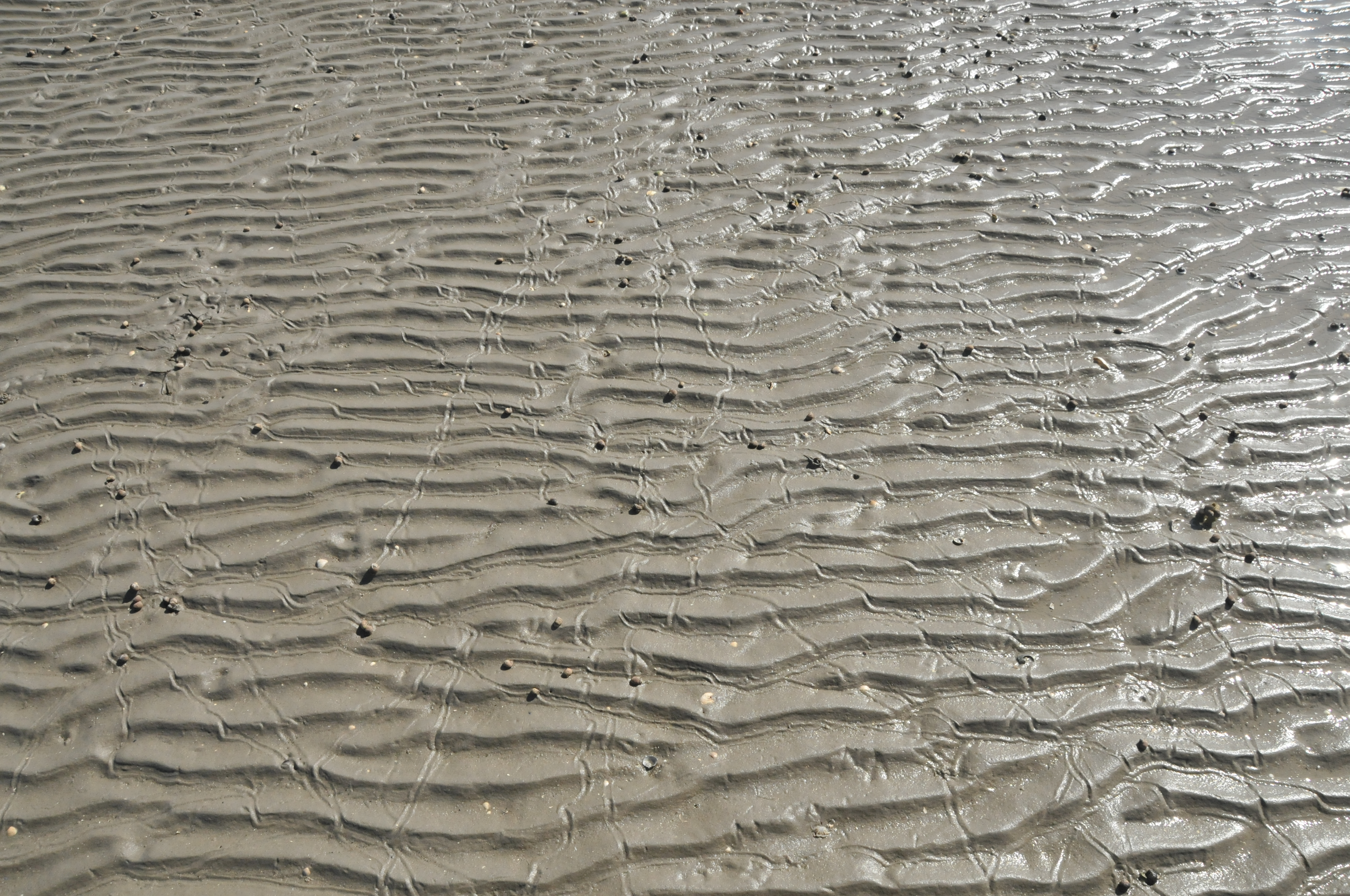 mudflat Wadden Sea near De Cocksdorp